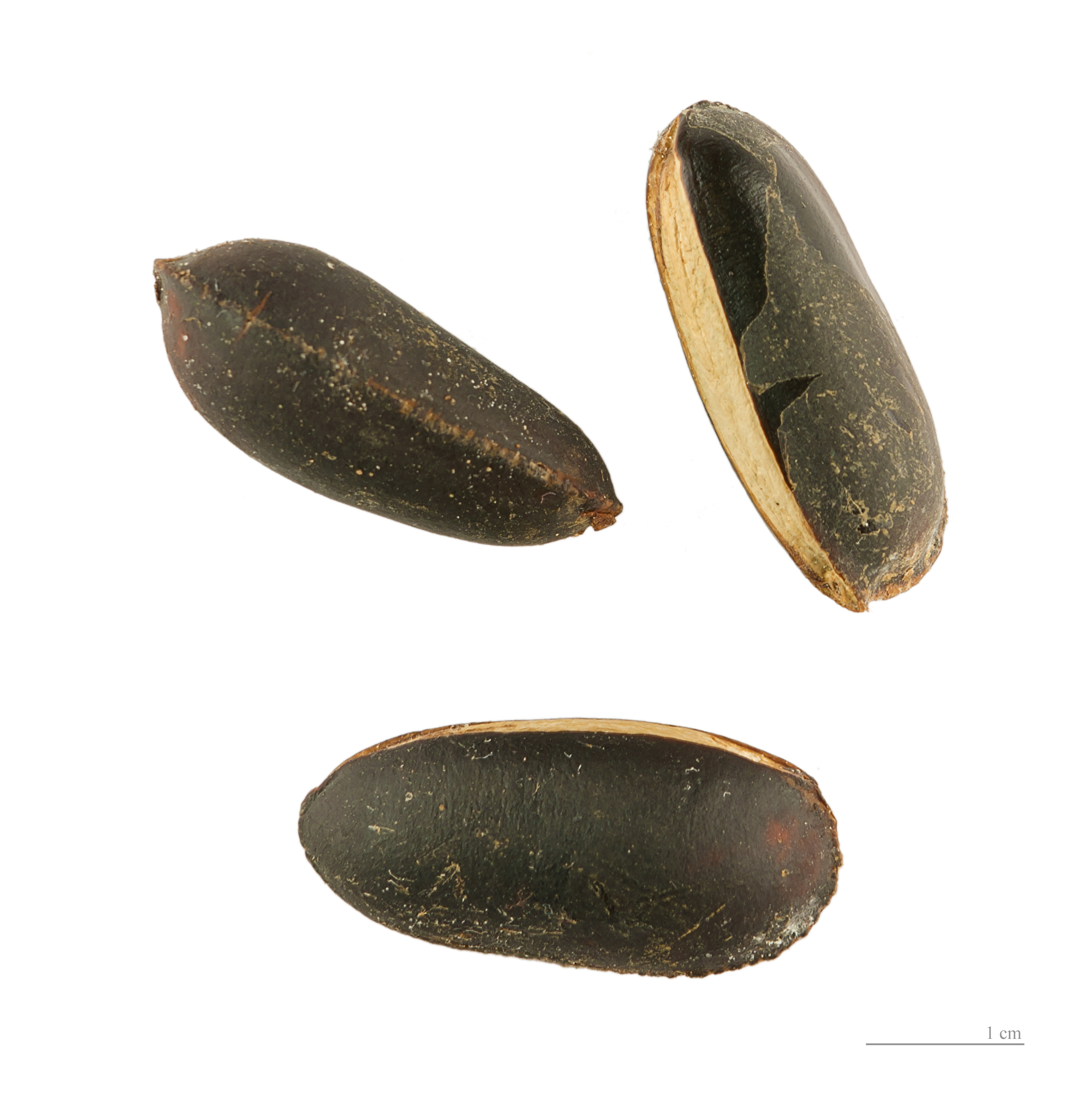 Seed of Pouteria caimito